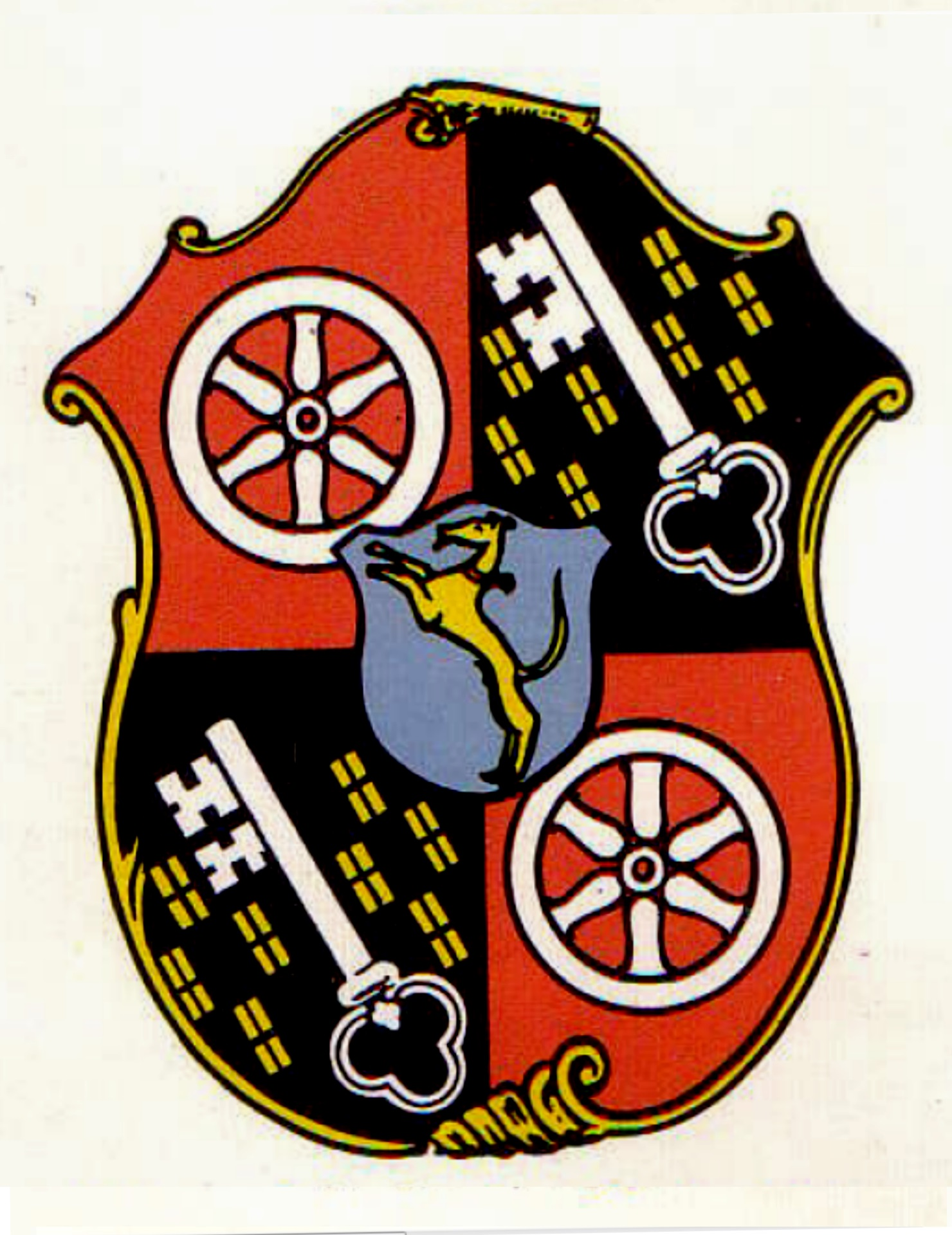 Portrait of Johann Friedrich Karl von Ostein (1689-1763)